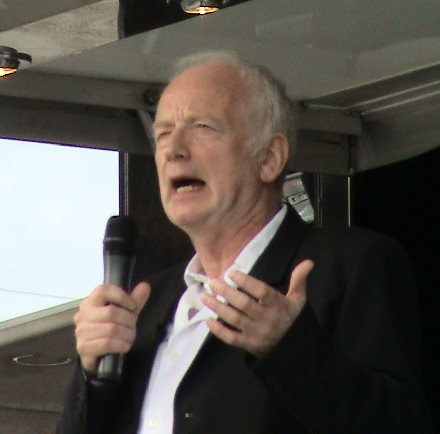 Ian McDiarmid at Celebration Europe. Photo by Pete Vilmur.